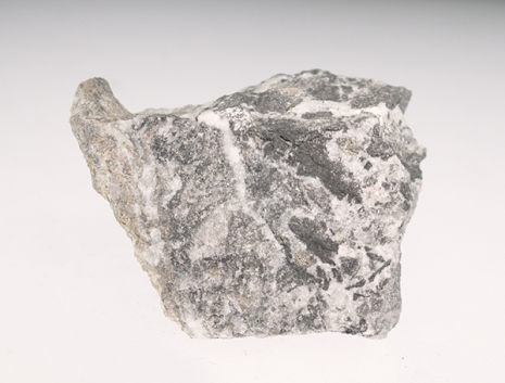 Empressite Locality: Joe Mine (Joe shaft), Tombstone District, Tombstone Hills, Cochise County, Arizona, USA Dimensions: 3.9 cm x 2.9 cm x 2.2 cm Empressite is a very rare Ag-Te and is very rare from this obscure mine from the famous Tombstone District. Small clusters and microcrystals of flashy bronze empressite are scattered on all sides of the quartz-rich matrix on this rare telluride species. From a major rarities collection.